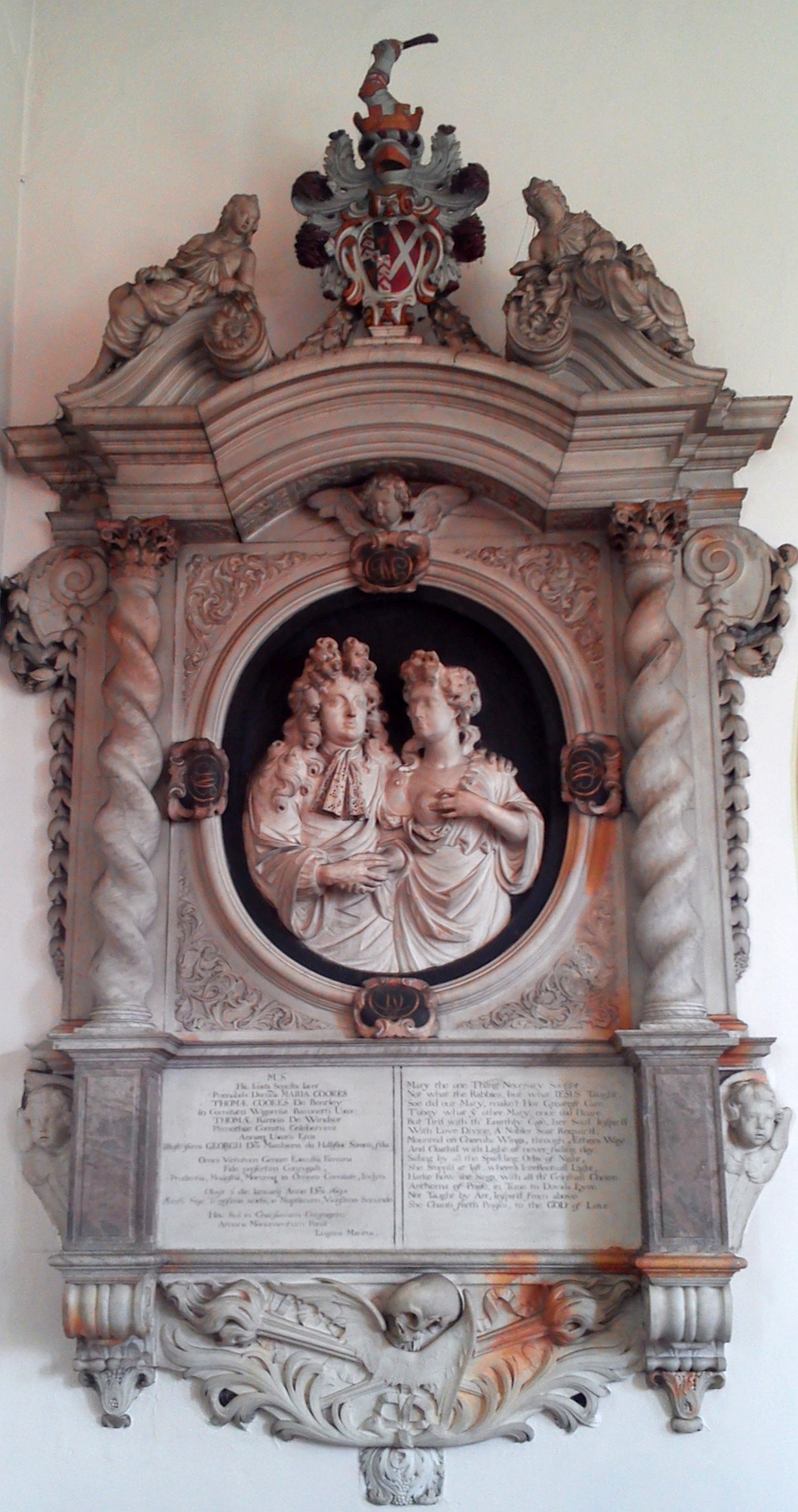 St Bartholomew's Church, Tardebigge, Worcestershire: Mural monument to Sir Thomas Cookes, 2nd Baronet (1648-1701) and his first wife Mary Windsor (d.1693), a daughter of Thomas Hickman-Windsor, 1st Earl of Plymouth. Sir Thomas founded a school in Feckenham and re-founded Bromsgrove School. In his will he left £ 10,000 to Oxford University to endow Gloucester Hall; it was later renamed Worcester College in honour of the benefactor's home county. Arms of Cookes: Argent, two chevronels between six martlets 3, 2 and 1 gules (quartering Jennetts and Denham?) (A General Armory of England, Scotland, and Ireland By John Burke, Bernard Burke[1]) and impaling Windsor. The arms of Cooke were adopted as the arms of Worcester College, Oxford and of Bromsgrove School.